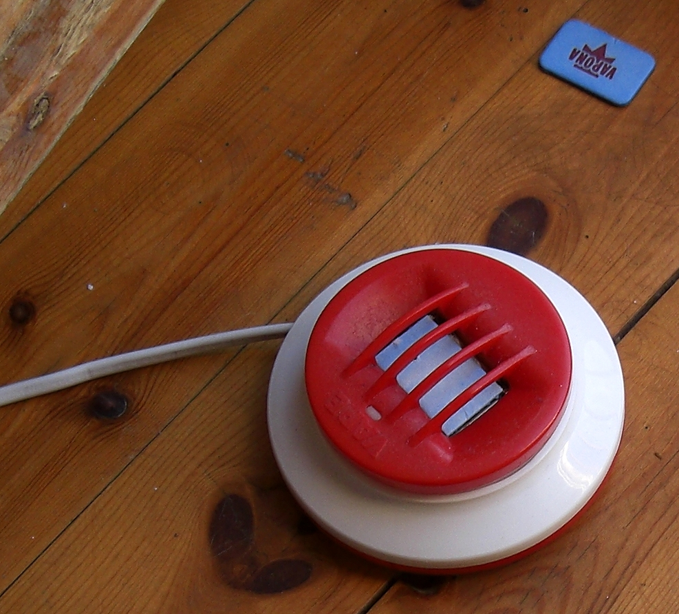 Vaporizer for chips containing Pyrethroids (Insecticides against mosquitos)